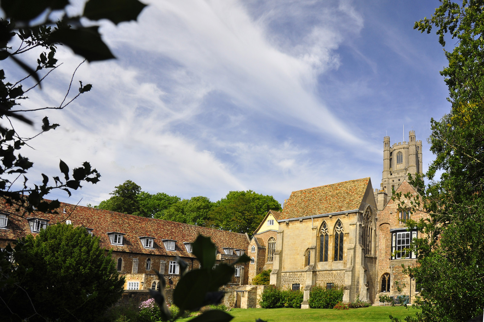 The Bishop's Palace - Ely